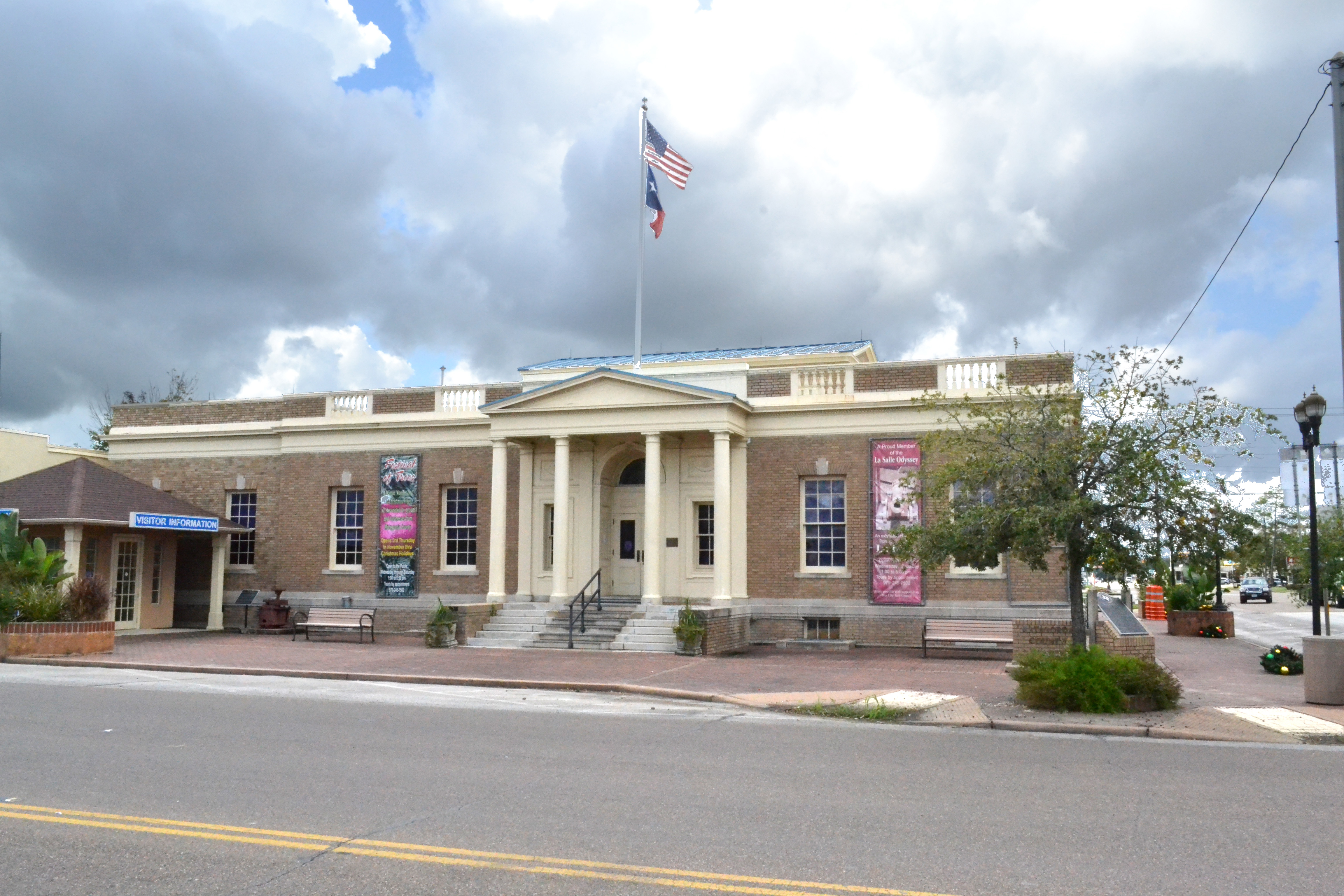 The former Bay City Post office in Bay City, Texas. Listed on the National Register of Historic Places.